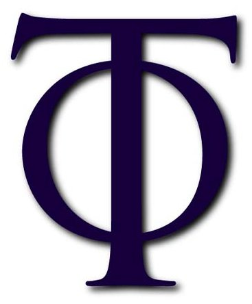 An image of the Phi Tau logo